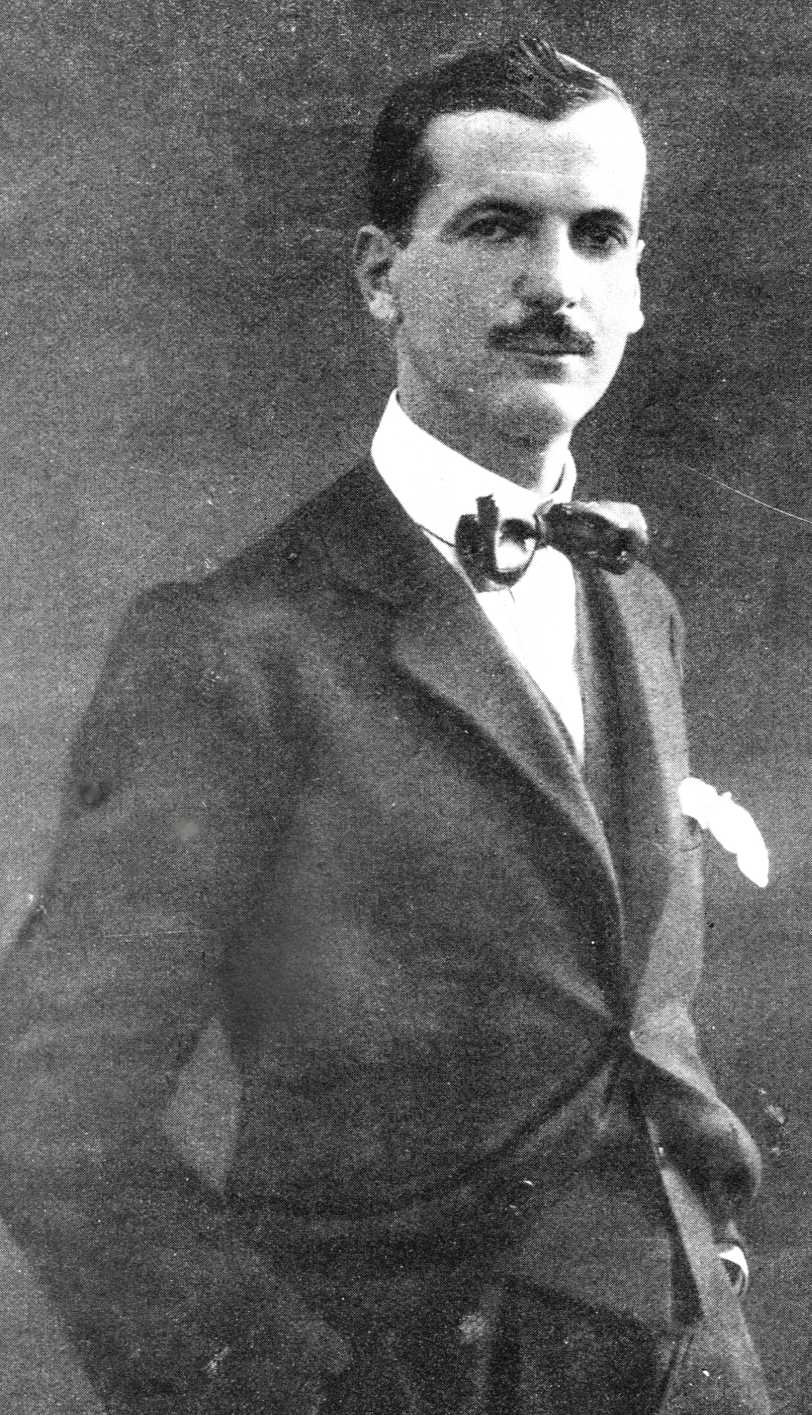 il regista Guglielmo Zorzi in una foto del 1914